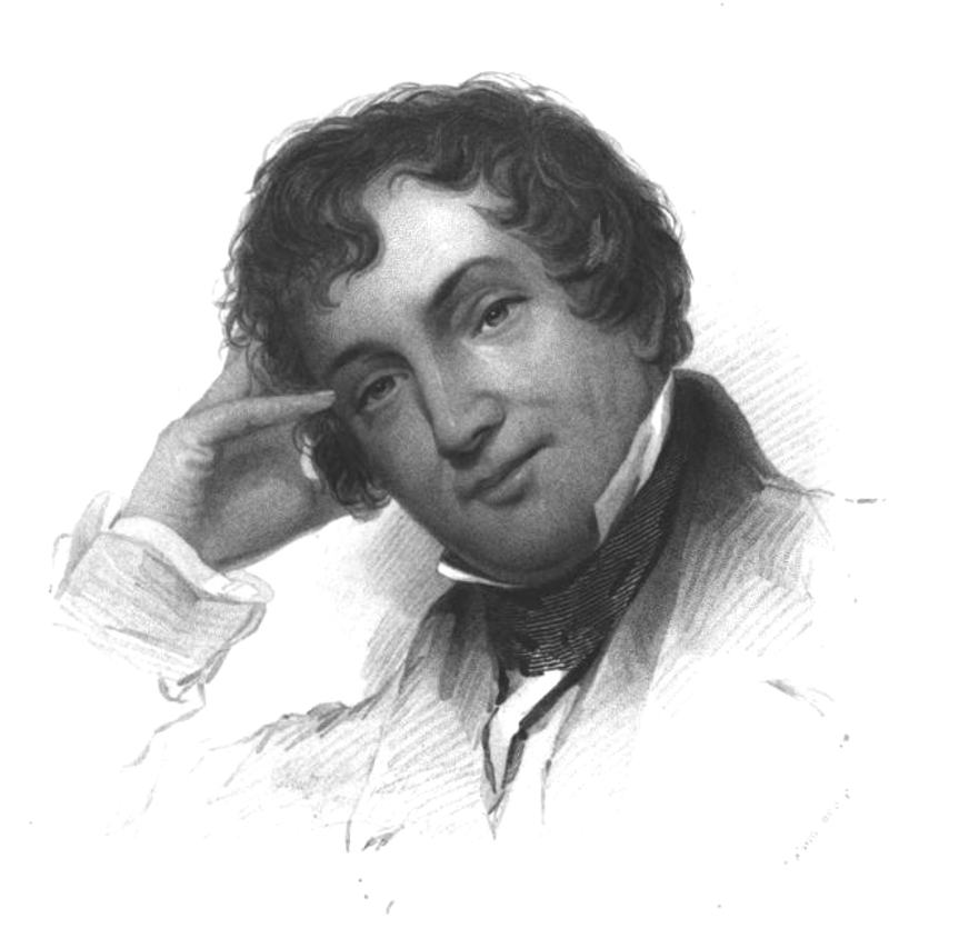 Steel engraving of American writer Washington Irving. Adjusted for brightness. From Homes of American Authors: Comprising Anecdotical, Personal, and Descriptive Sketches, By Various Writers. Published by G. P. Putnam and co., 1853.